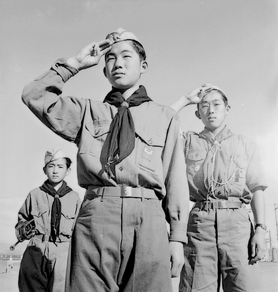 The full caption for this photograph reads: Heart Mountain Relocation Center, Heart Mountain, Wyoming. Boy Scouts conducting a morning flag raising cermony at the Heart Mountain Relocation Center, where persons of Japanese ancestry, evacuated from west coast defense areas, now reside.